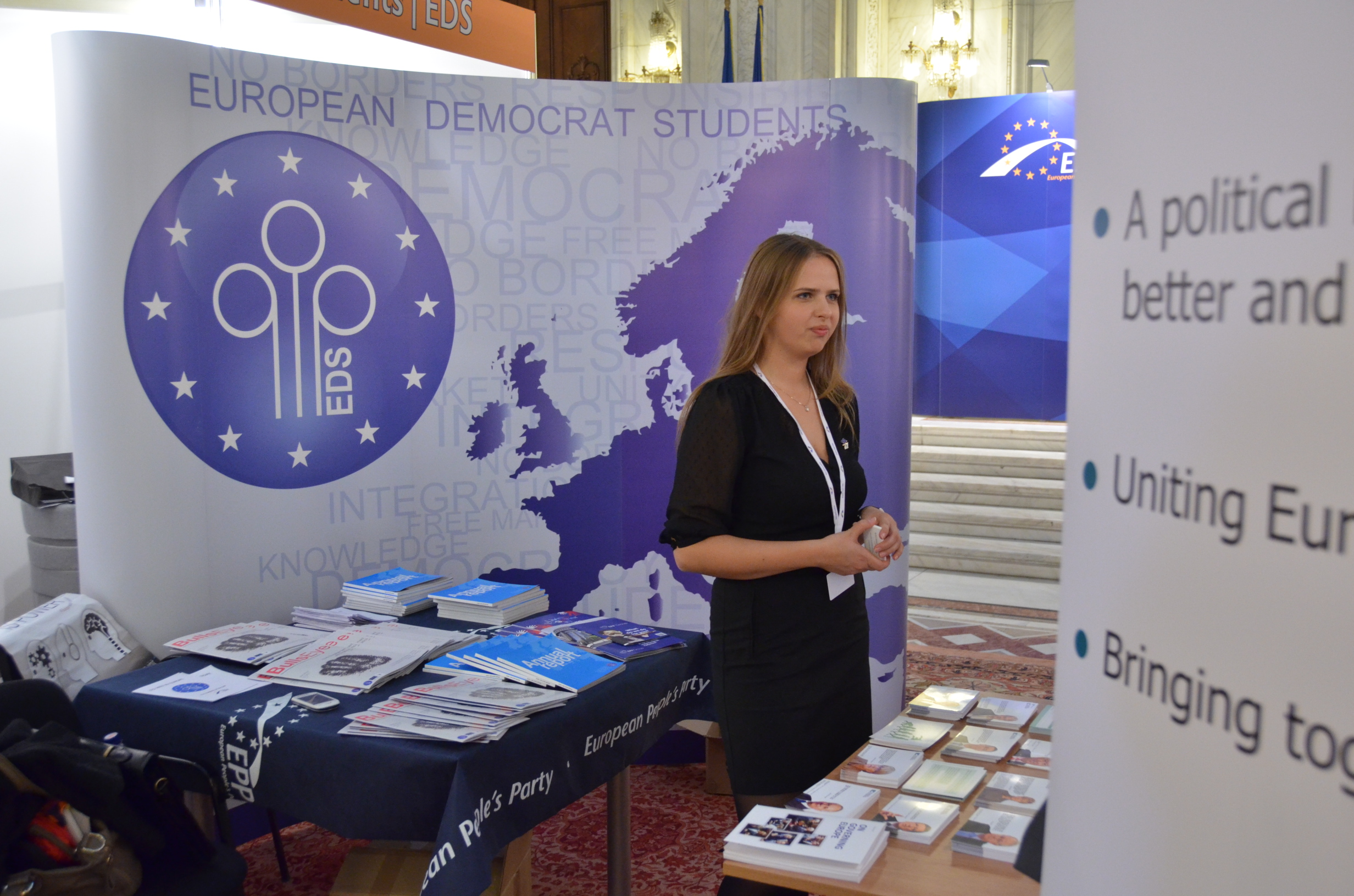 EPP_Congress_2407